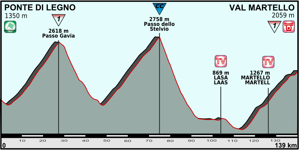 Giro d'Italia 2013 - stage profile # 19